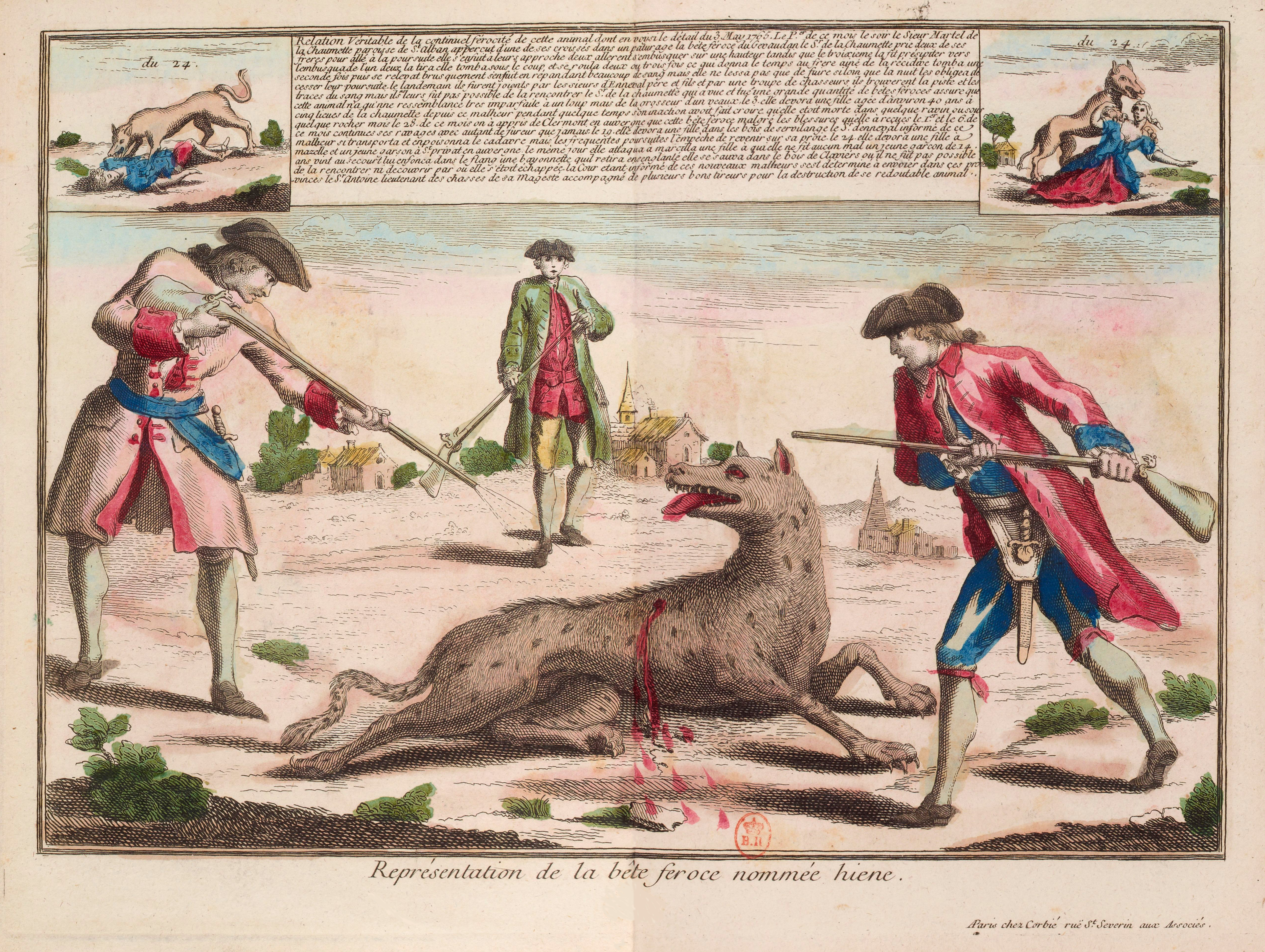 18th century print depicting the Beast of Gévaudan.